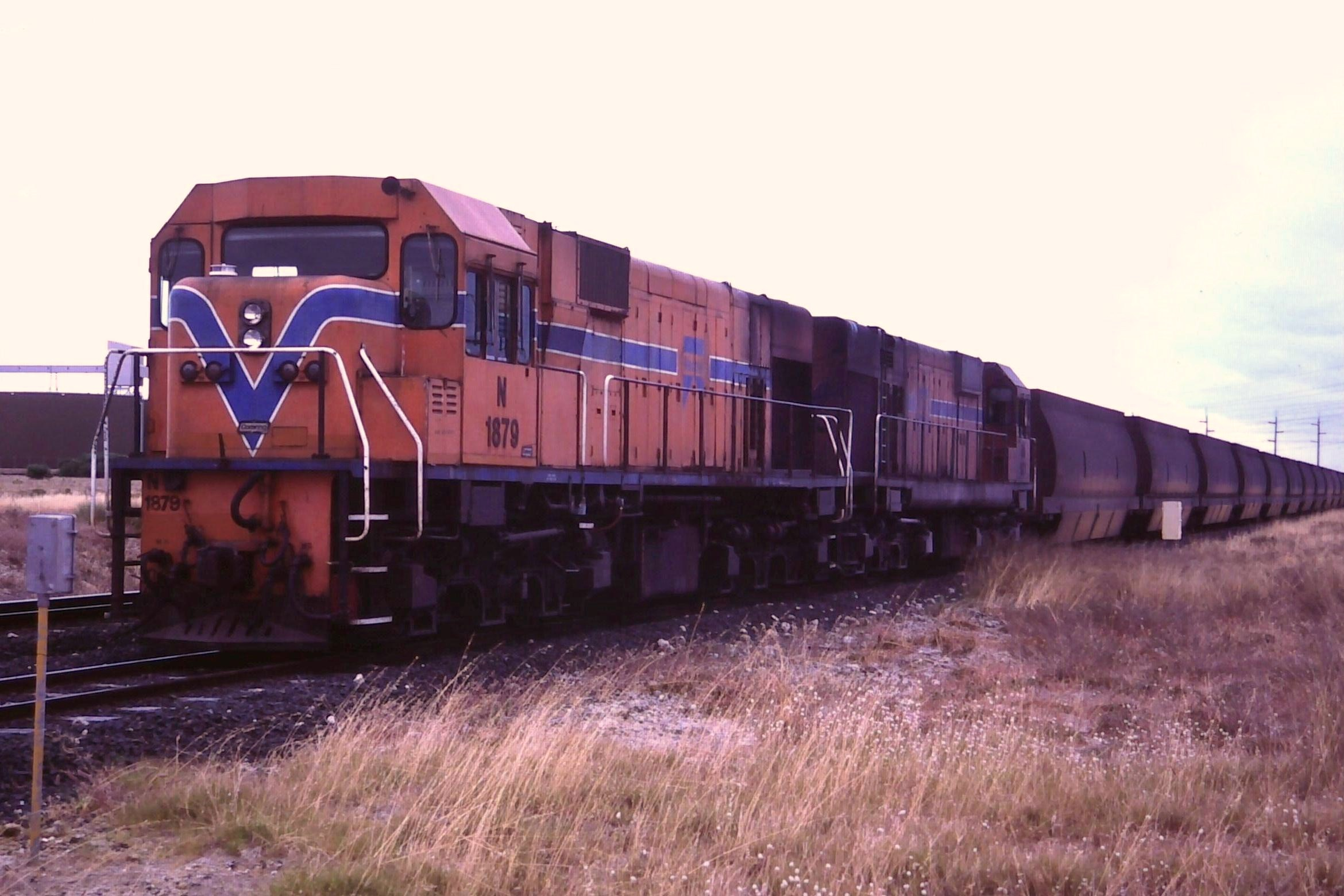 Western Australian Government Railways (WAGR) N class diesel-electric locomotives nos N1879 and N1871 with a train of woodchip wagons at Bunbury Harbour, Western Australia.Kodachrome slide converted by Kaiser Baas Photo Maker Pro into a digital image.